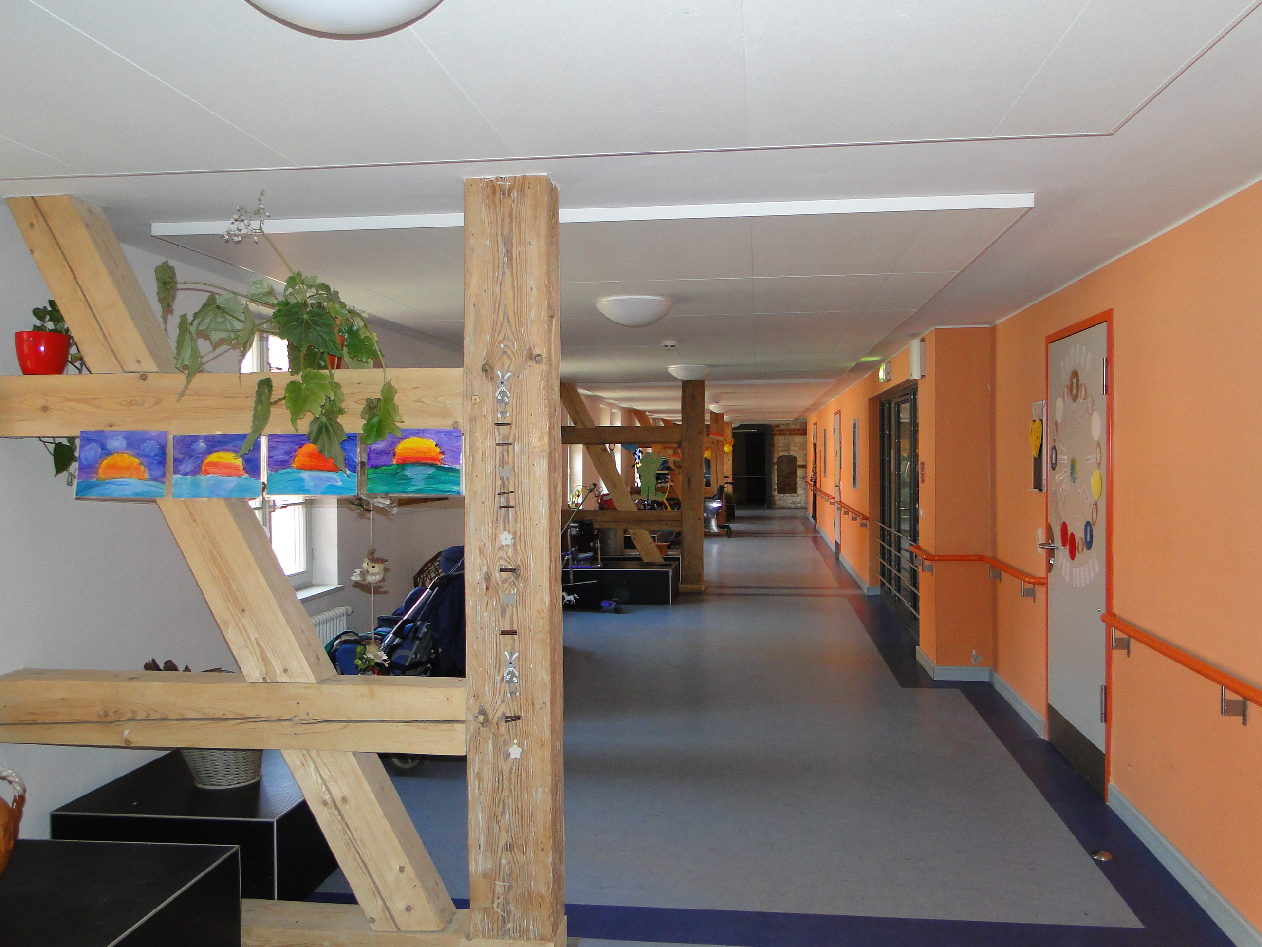 Monastery in Dobbertin, district Parchim, Mecklenburg-Vorpommern, Germany